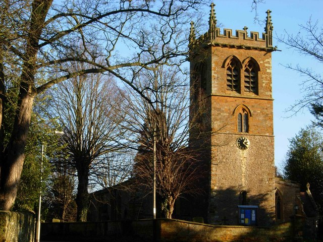 St Mary's parish church, Gayton, Northamptonshire, seen from the west